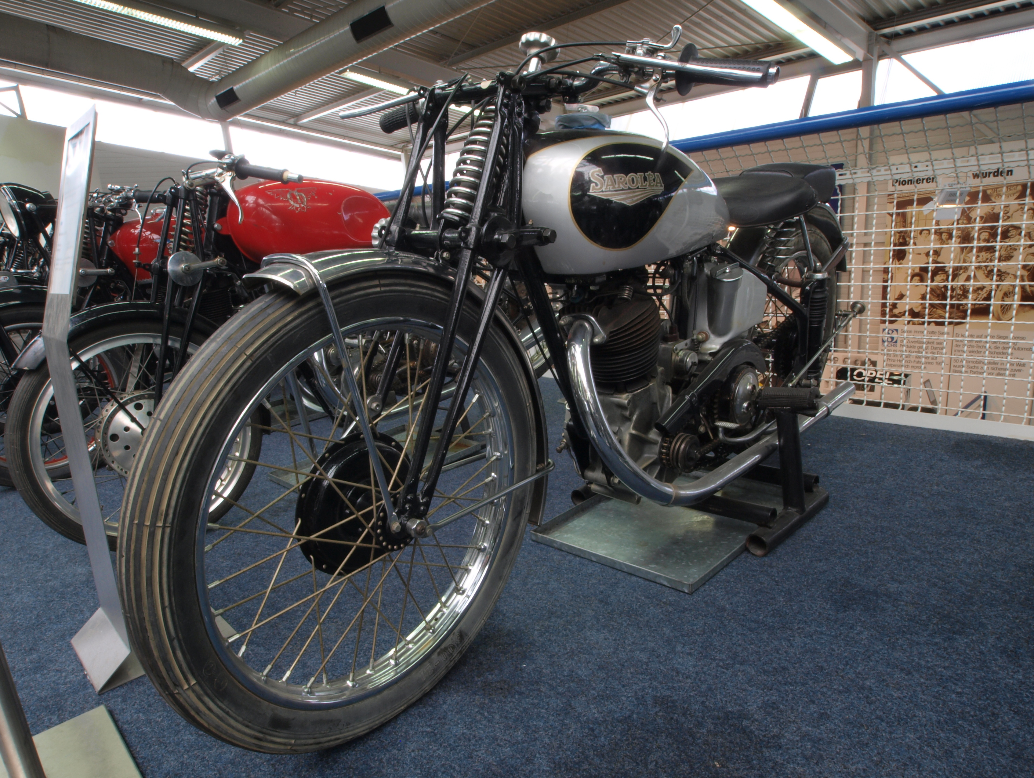 Photographed at the Motor-Sport-Museum am Hockenheimring, Germany.